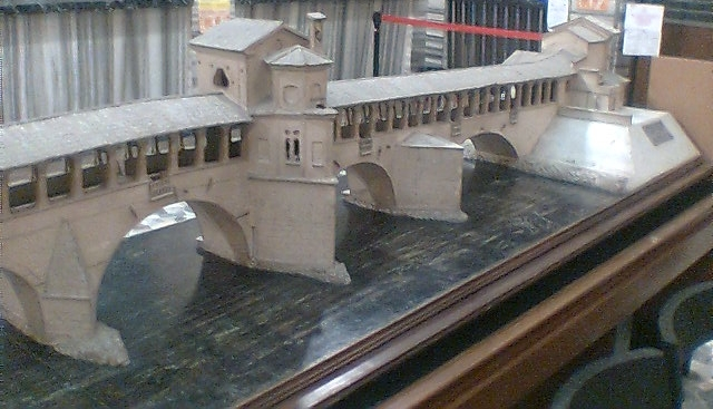 low resolution photo of wooden model of Ponte Coperto, Pavia